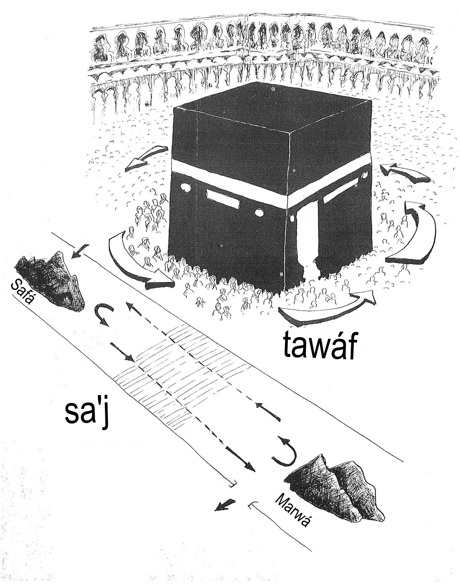 This picture with czech legend.